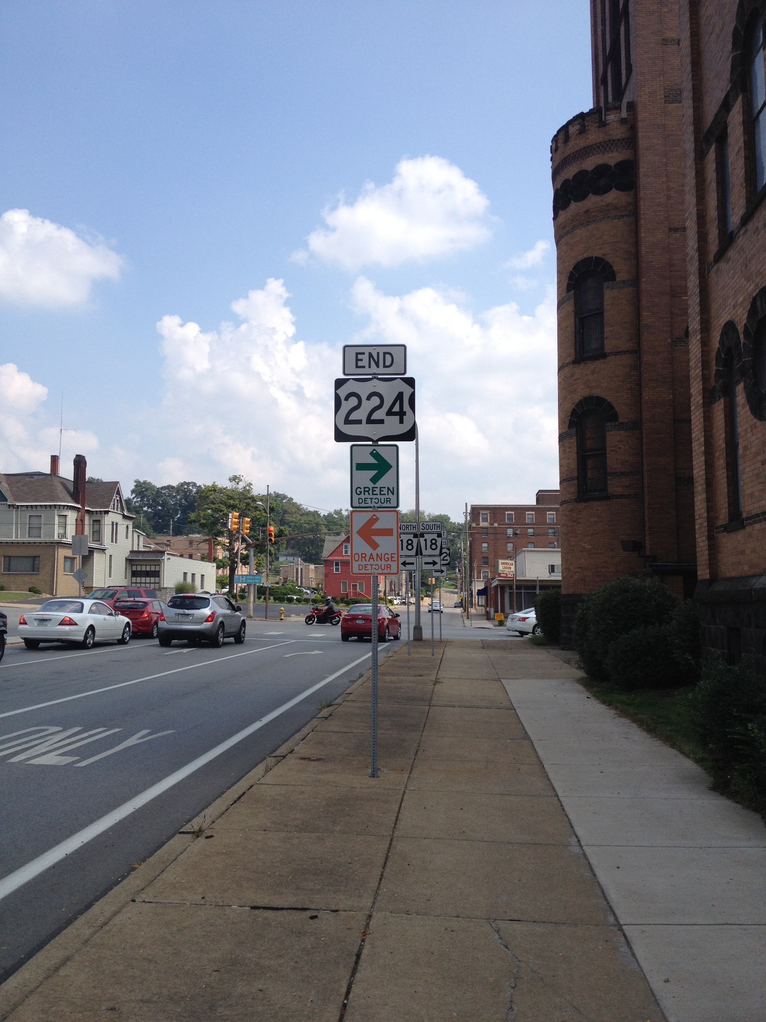 The eastern terminus of US 224 in New Castle, Pennsylvania at the junction with PA 18.